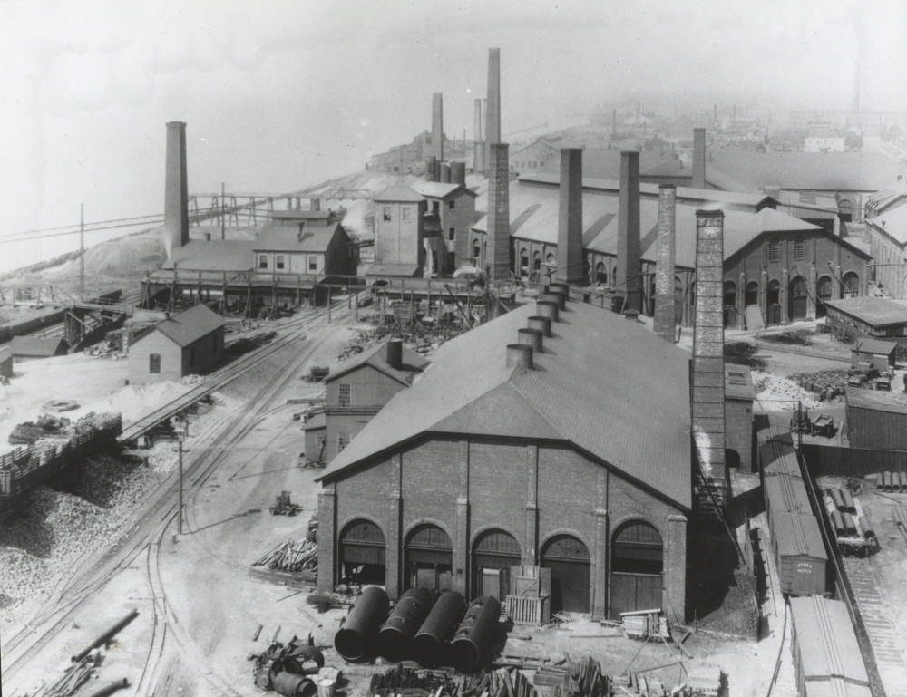 Otis Iron and Steel Co., E. 25th to E. 43rd, Cleveland, OH